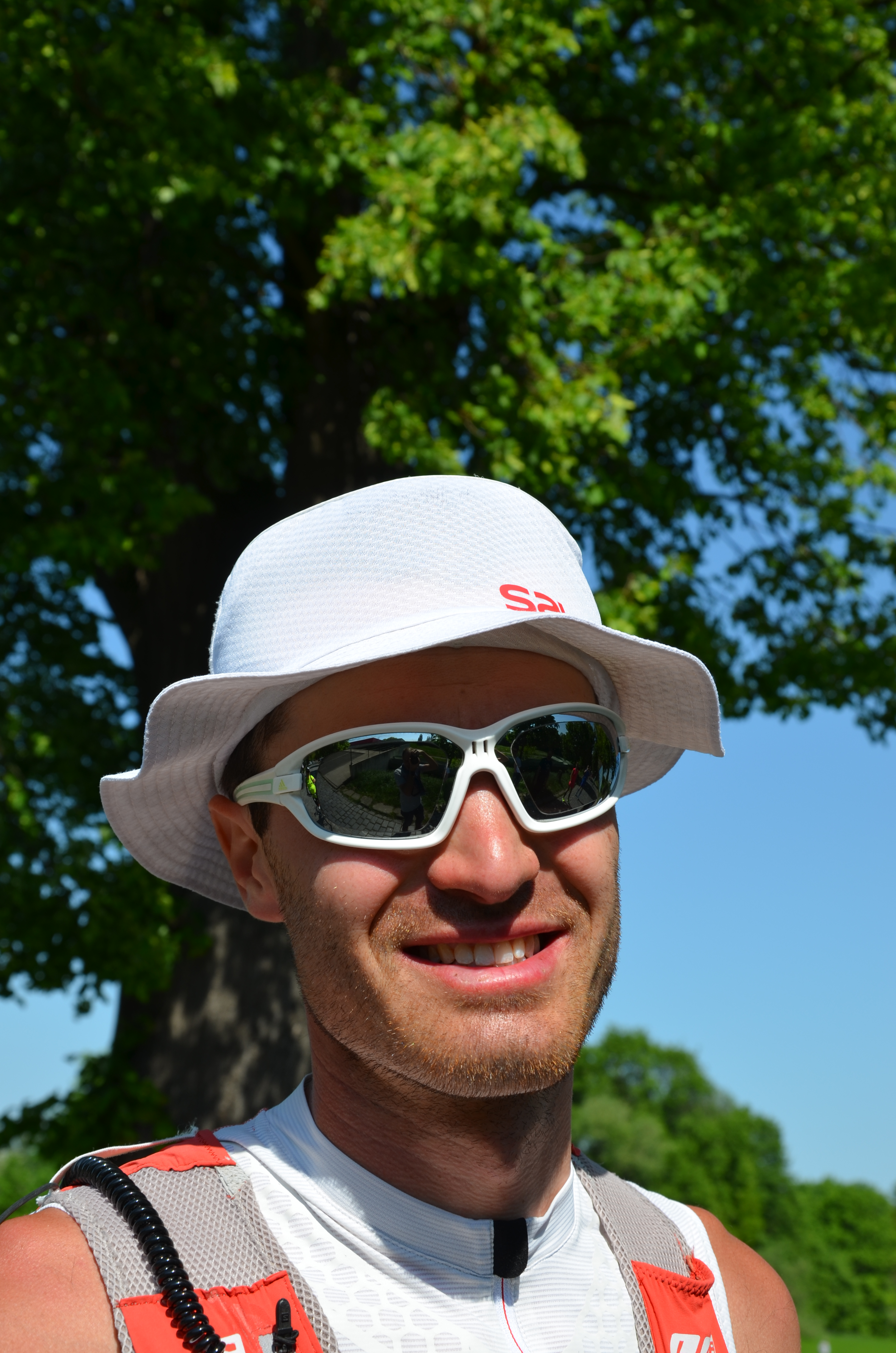 Detail portrait of Štěpán Dvořák in 2018 in Pardubice, Pardubice District.